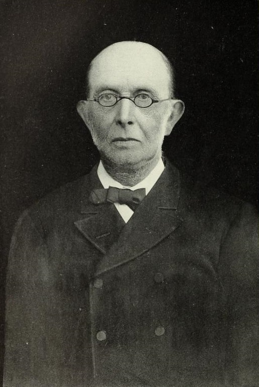 Portrait of Konstantin Pobedonostsev